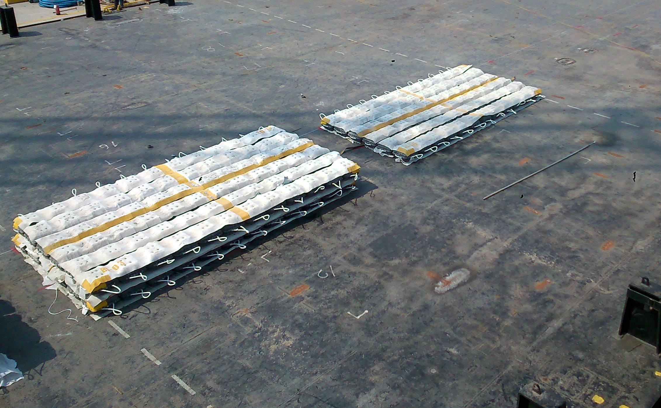 Concrete matrasses, used to be put under underwater pipeline. They are stowed on barge before transporting to pipelaying site.